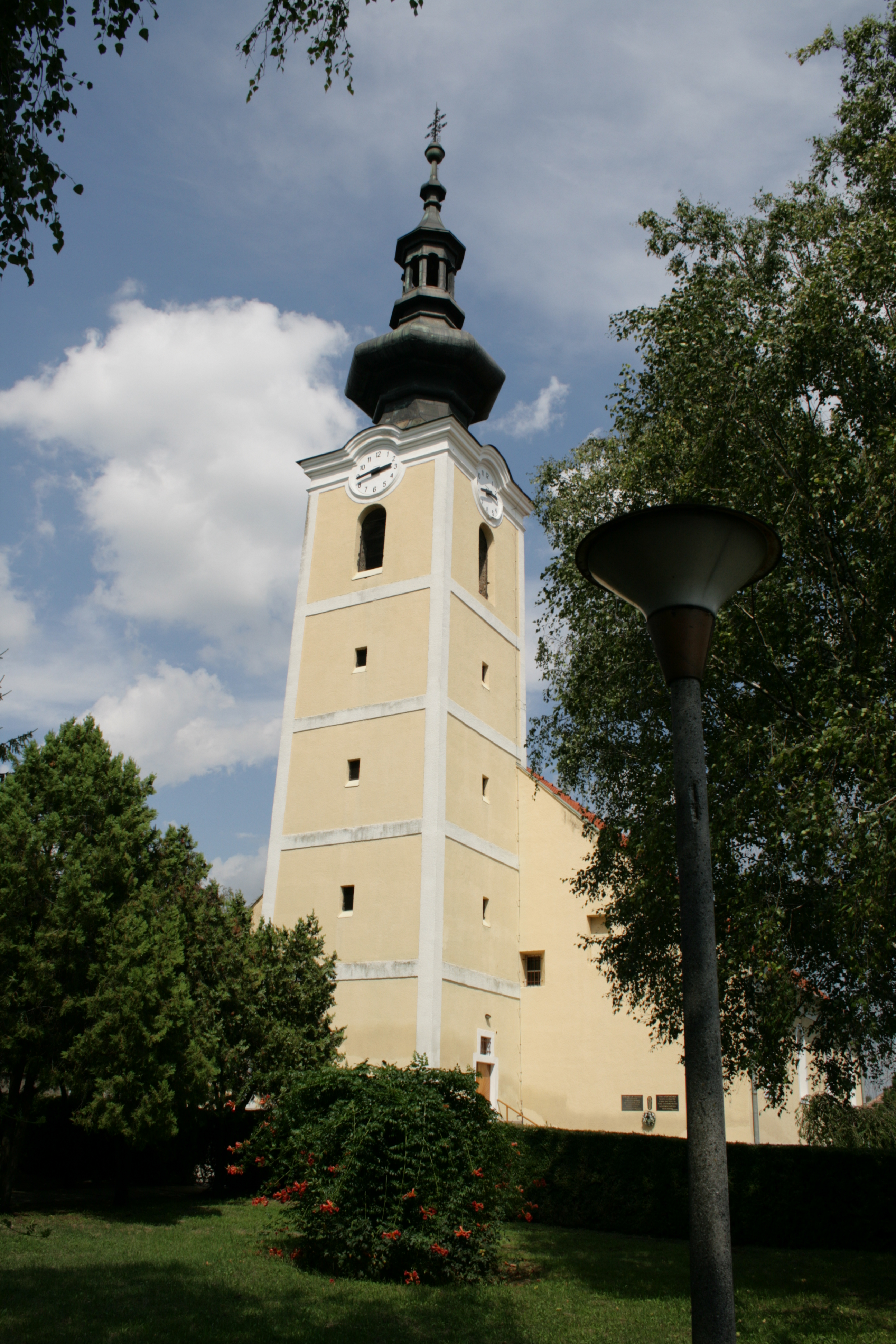 Church in Veľké Úľany (Galanta district, Slovak Republic)